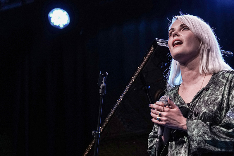 Mette Lindberg at Aarhus Jazz Festival 2017, performing with Spacelab.